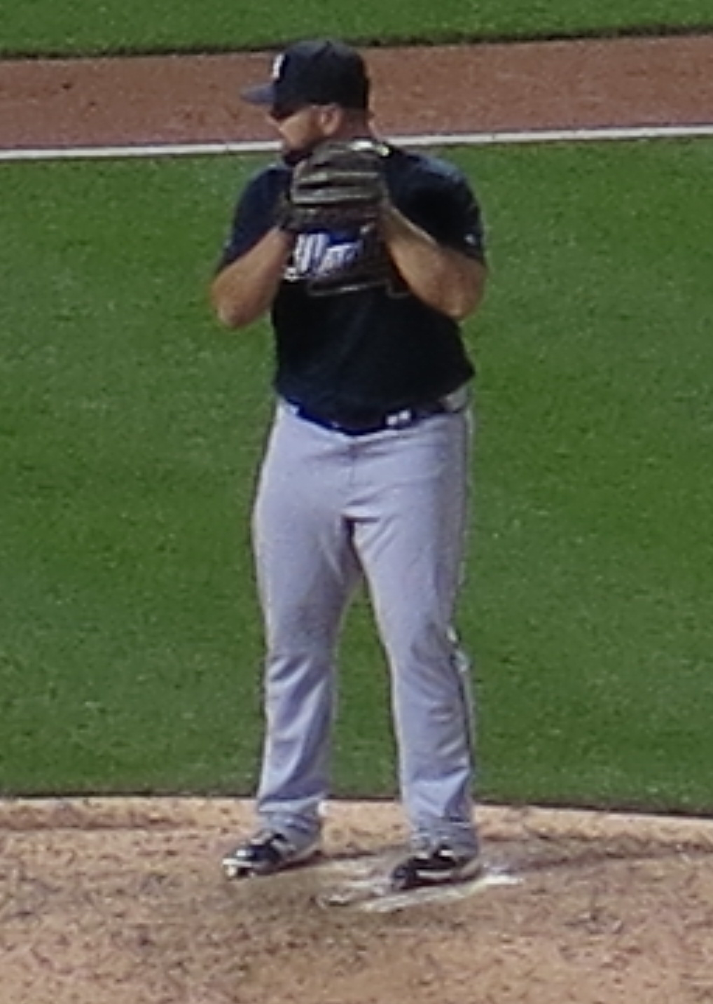 Hunter Cervenka of the Atlanta Braves, June 17, 2016.